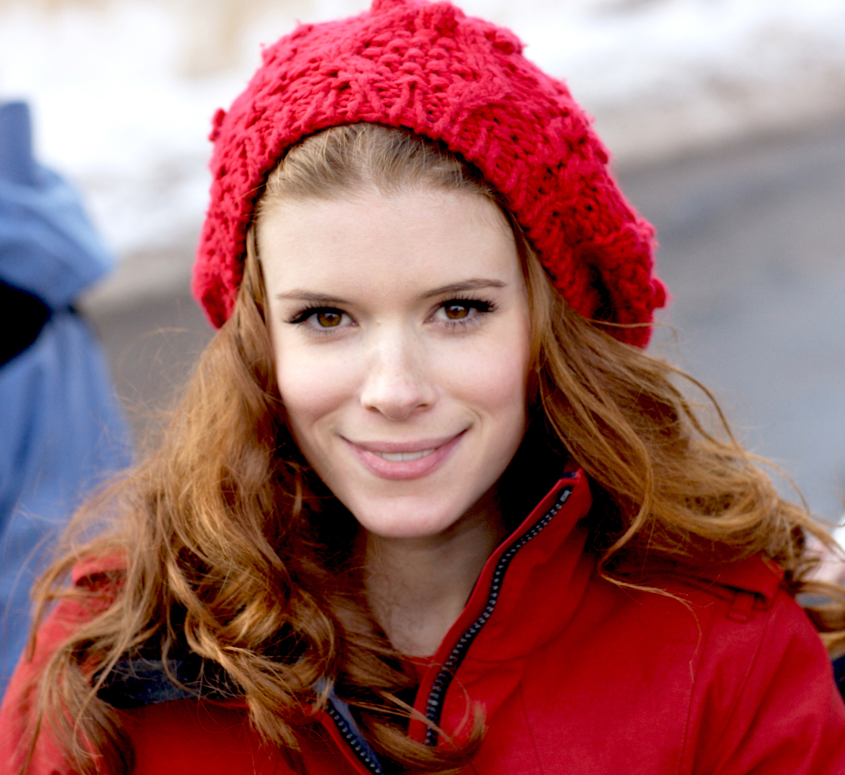 Kate Mara at the 2008 Sundance Film Festival.